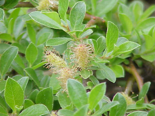 Species: Salix × simulatrix Family: Salicaceae Image No. 1